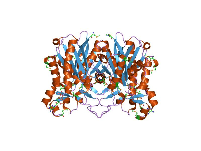 Cartoon representation of the molecular structure of protein registered with 1ebl code.